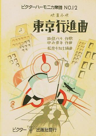 Japanese movie poster for 1929 Japanese film Tokyo March (Tokyo koshin-kyoku)